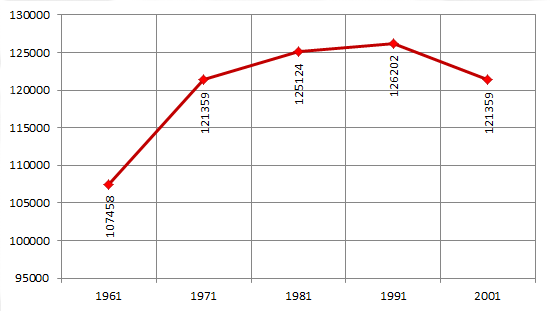 The population of the City & District of St Albans (1961-2001).